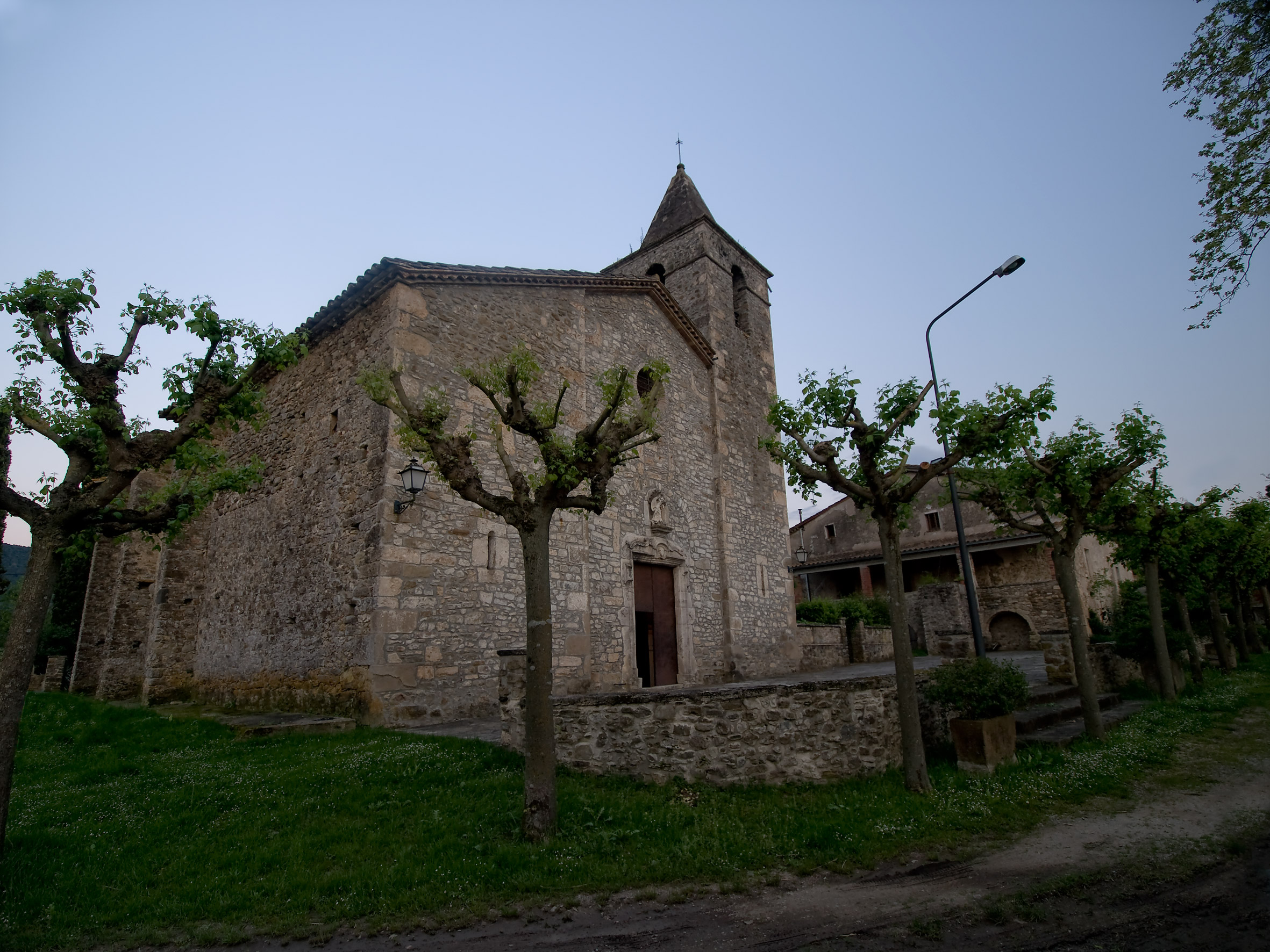 Sant Miquel de Campmajor church (Catalonia, Spain)